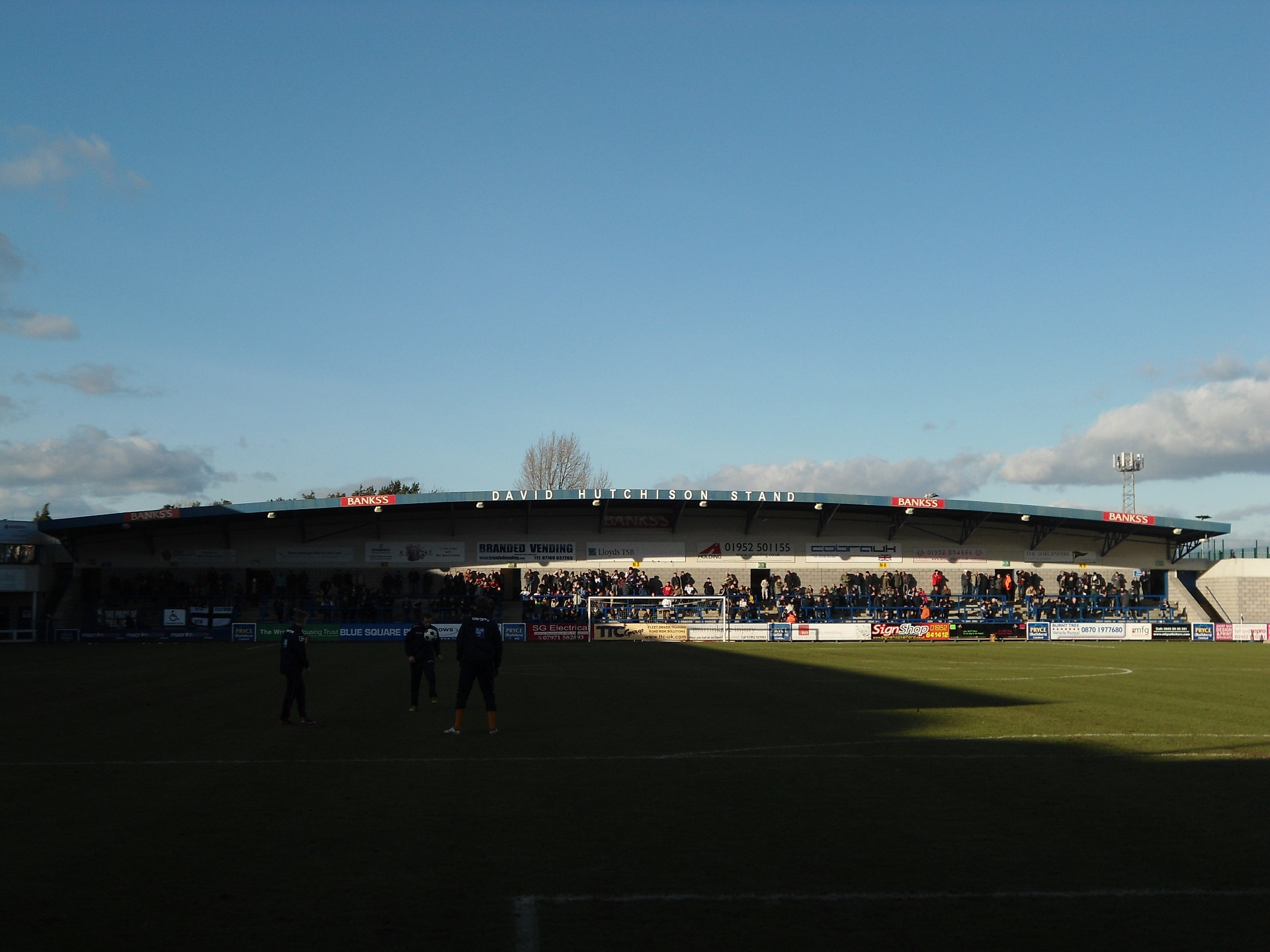 A photo of the David Hutchinson Stand at The New Bucks Head, Telford, England